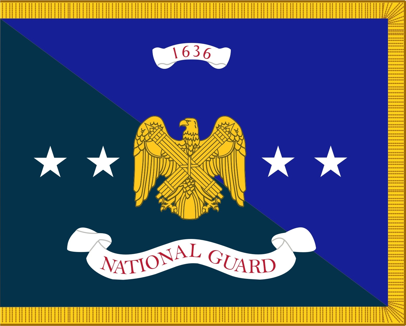 Position flag for Chief of the National Guard Bureau since 2008.